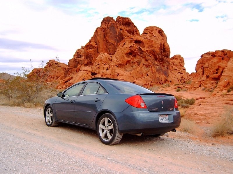 Pontiac G6 GTP in the Valley of Fire, NV